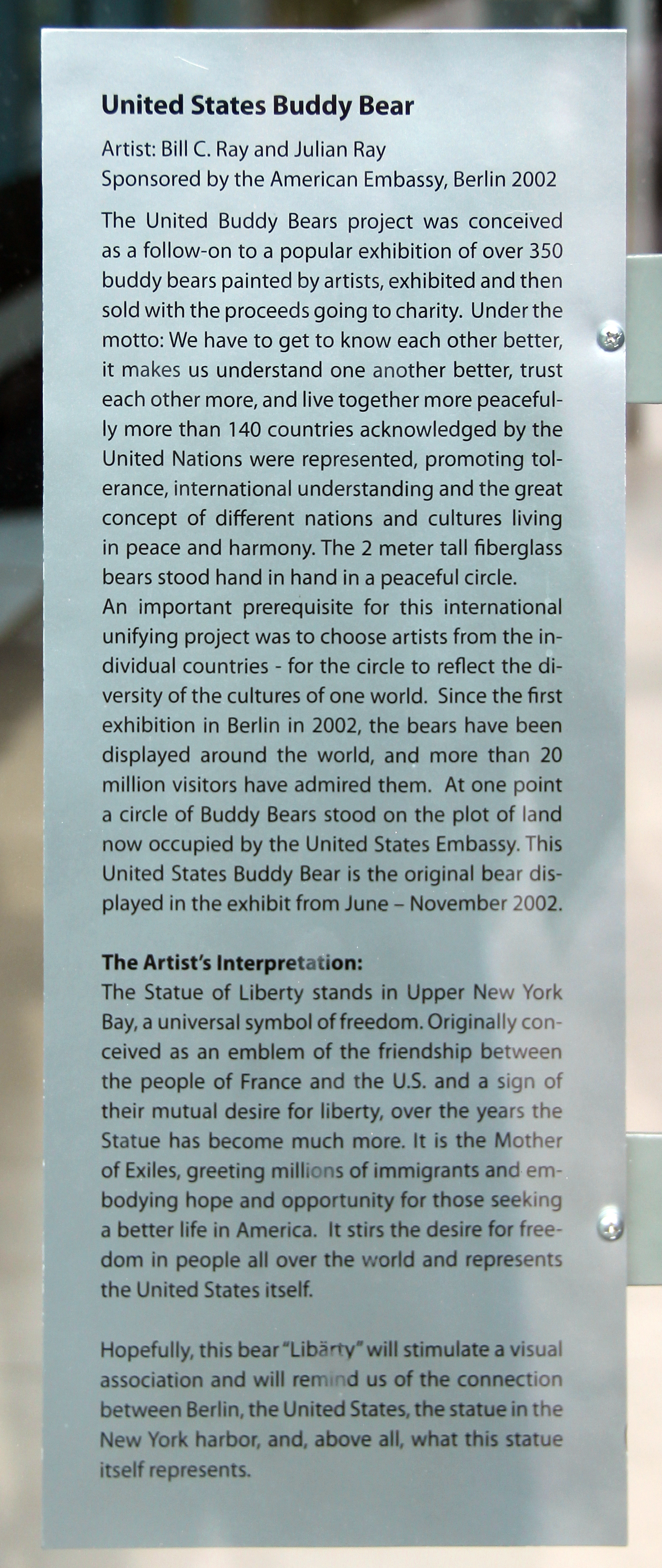 Memorial plaque, Buddy Baer United States, Ebertstraße 21, Berlin-Mitte, Germany